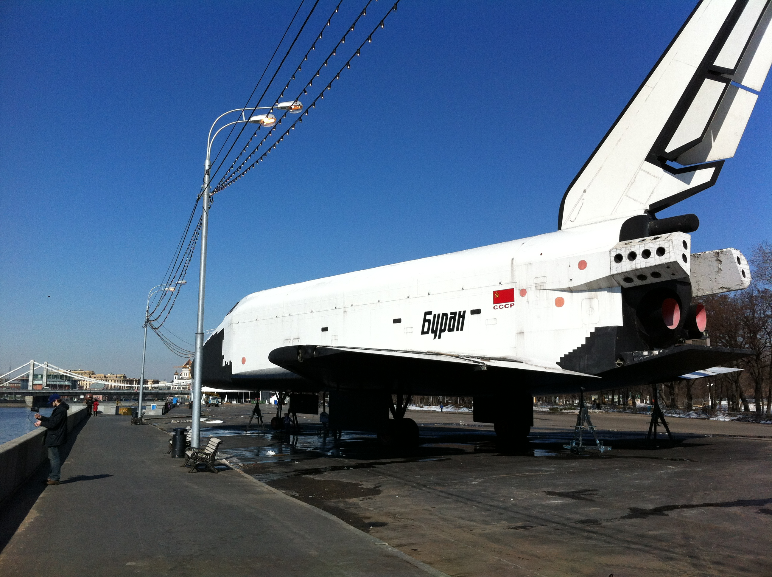 Buran space shuttle, Gorki Park, Moscow, Russia